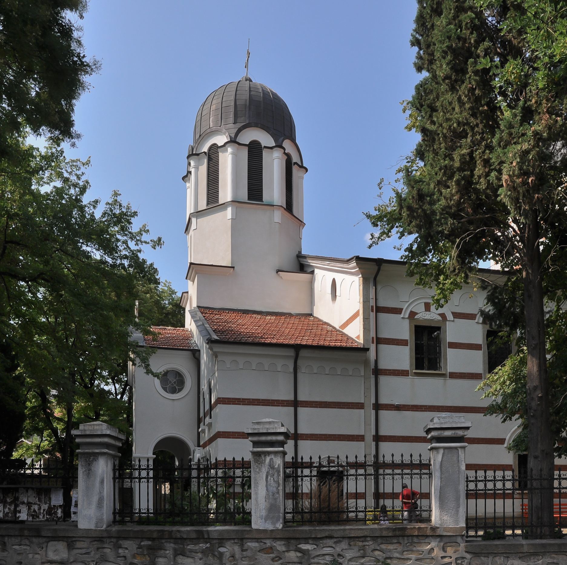 The belfry of St Demetrius Cathedral in Stara Zagora, Bulgaria.